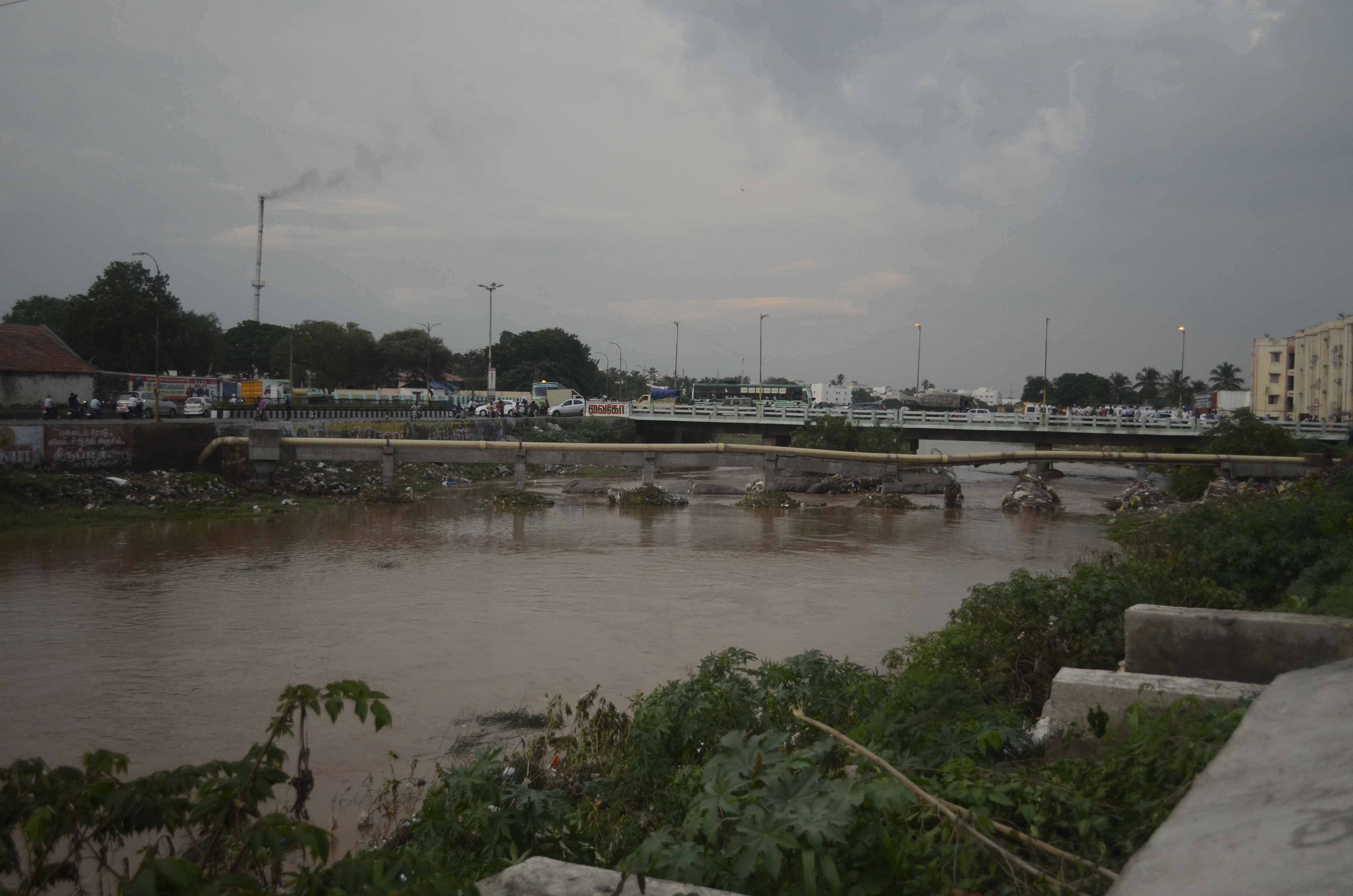 Noyyal River in Tiruppur_water flowing after heavy rain. Bank full of plastic garbage